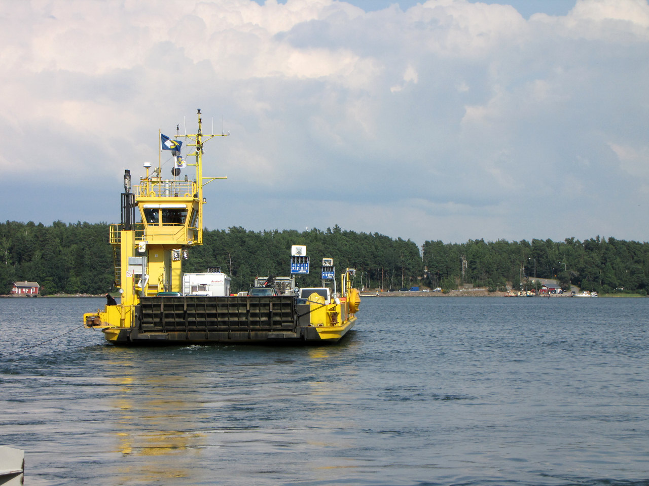 Vartsala cable ferry in Kustavi, Finland.